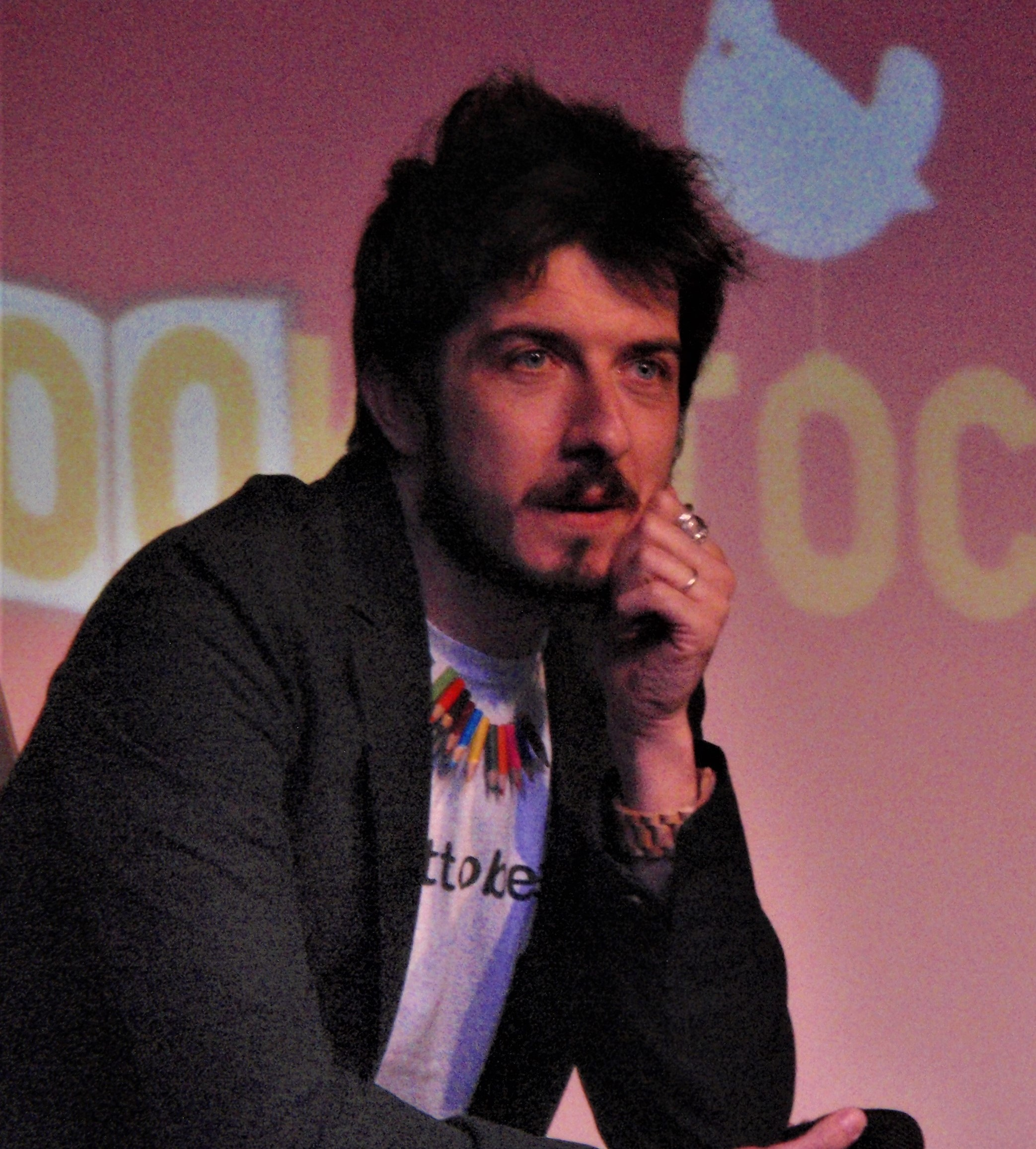 Paolo Ruffini presents his book at Fiera del Libro in 2013 in Turin.